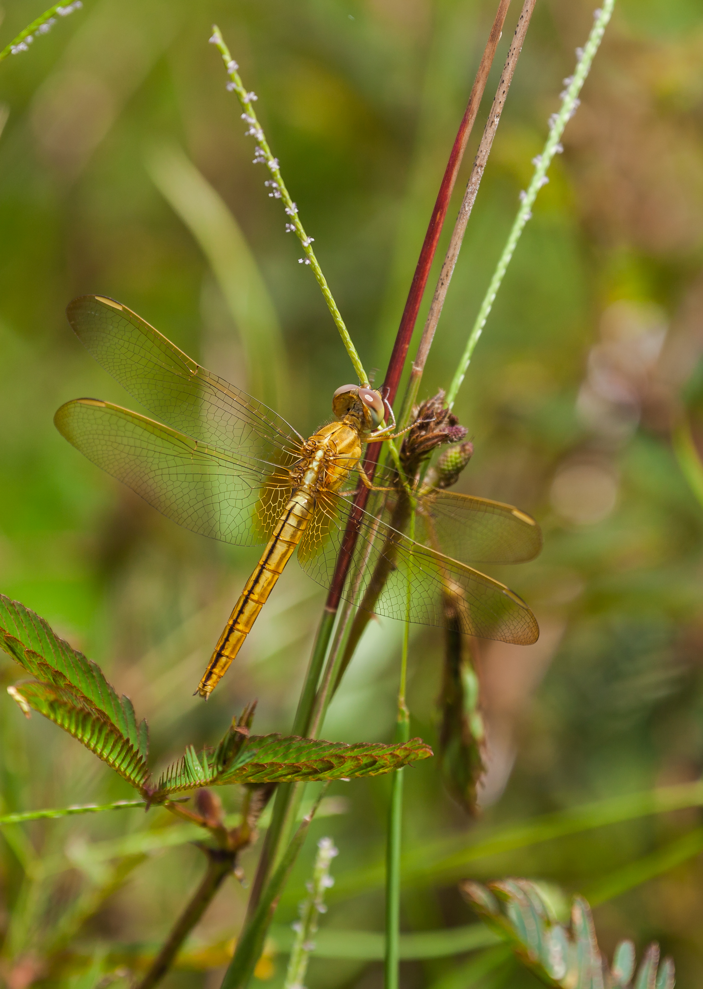 Crocothemis servilia female, Angkor, Cambodia